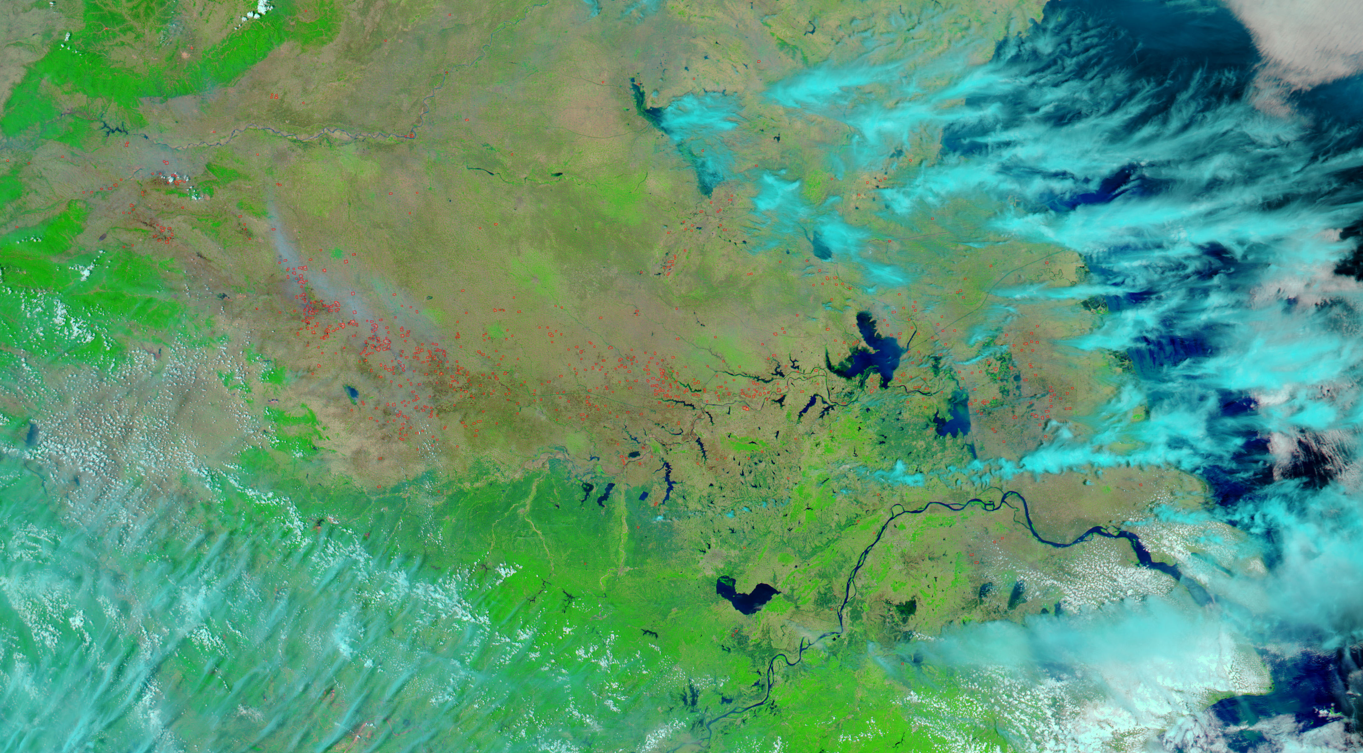 Huai River